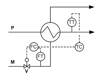 HEX with cascade control